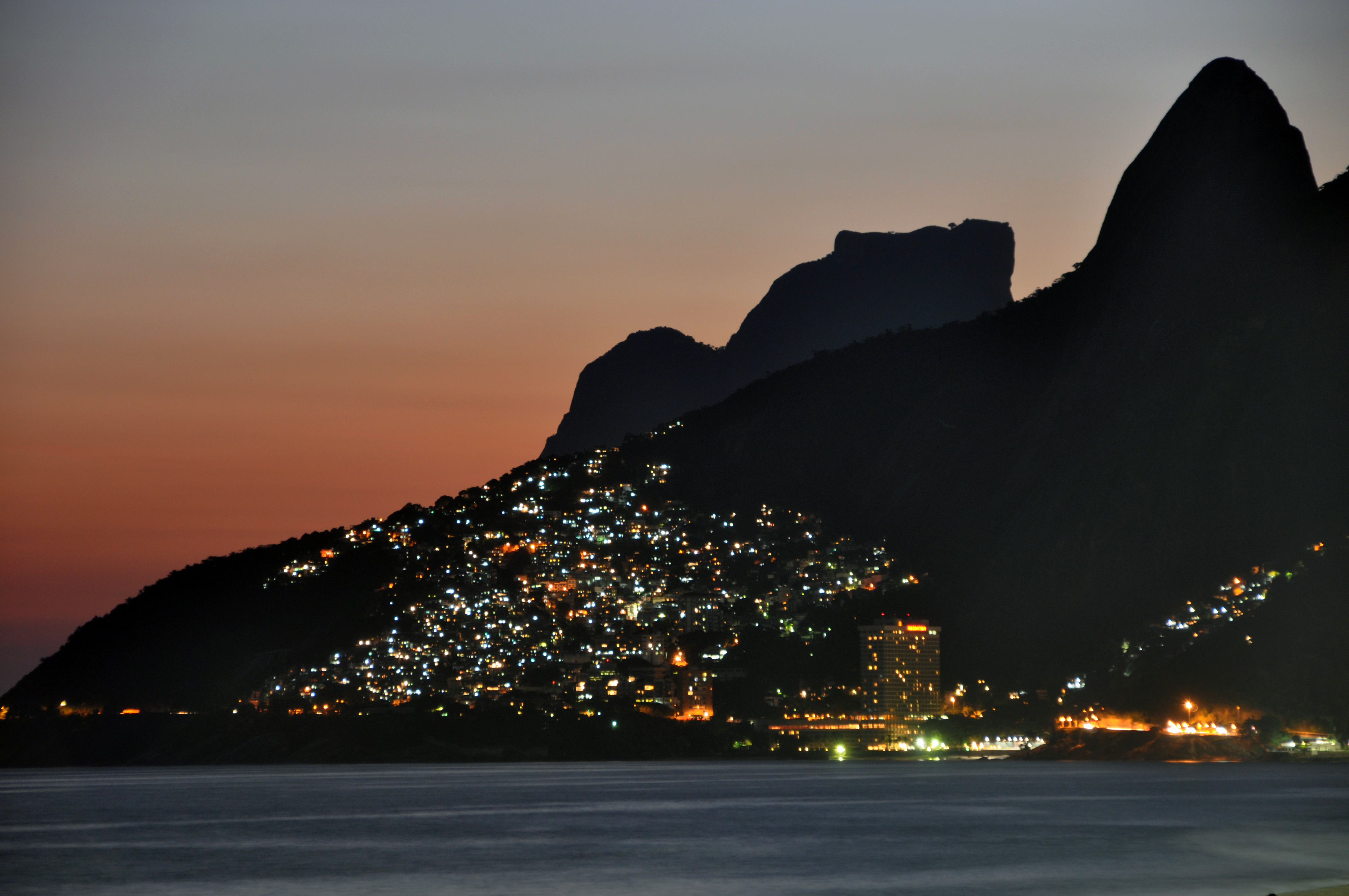 rio de janeiro favela ipanema beach night 2010